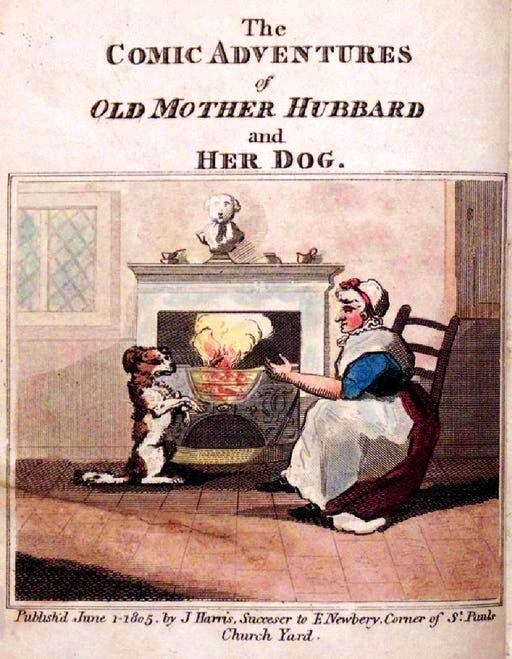 Title page of the first edition of The Comic Adventures of Old Mother Hubbard and Her Dog, published in 1805 by the London firm of J. Harris